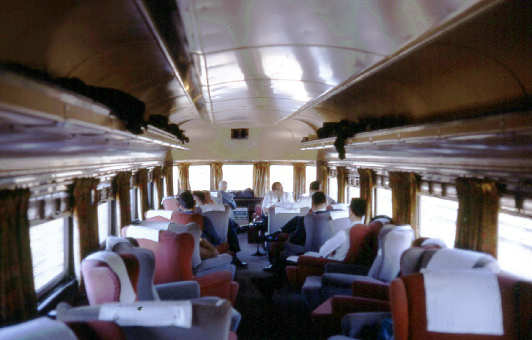 Photo of the interior of observation car Jupiter from the Zephyr "Train of the Gods" in 1968. Originally built for service as the Twin Cities Zephyrs, these trains were later reassigned as the Nebraska Zephyr. Budd built #226 "Jupiter" in 1936. As built it seated 24.